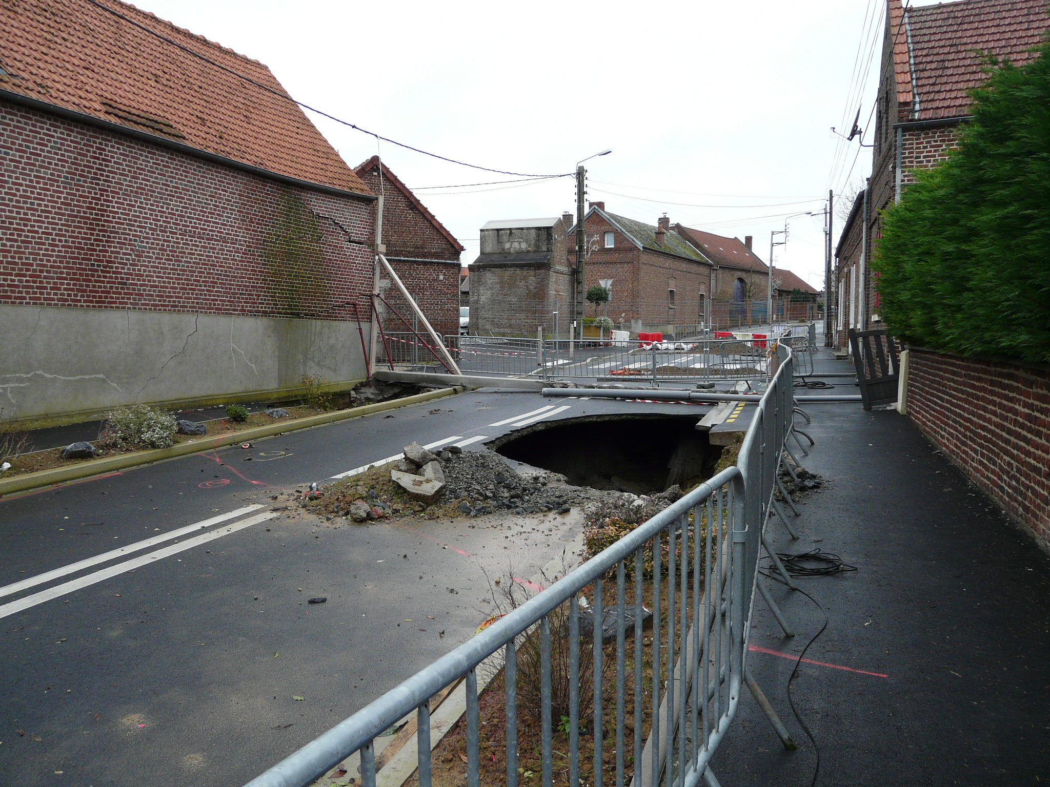 Road collapse in Rumilly-en-Cambrésis, Dec. 2013, due to ancient underground man-made caves left after quarrying limestone